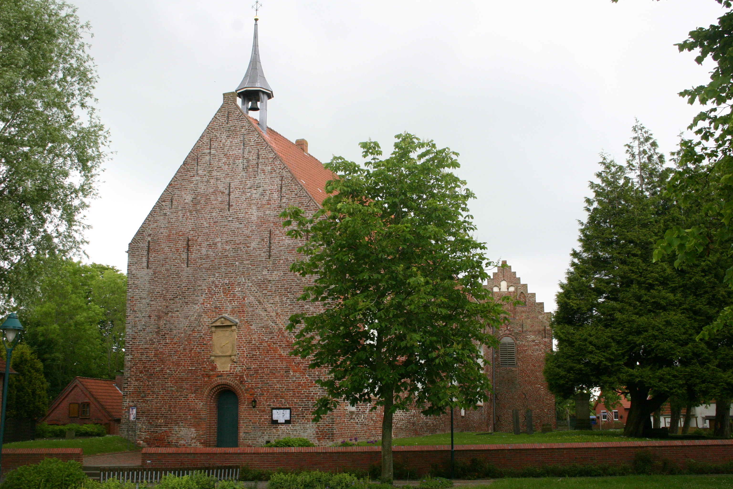 Historic church in Visquard, district of Aurich, East Frisia, Germany